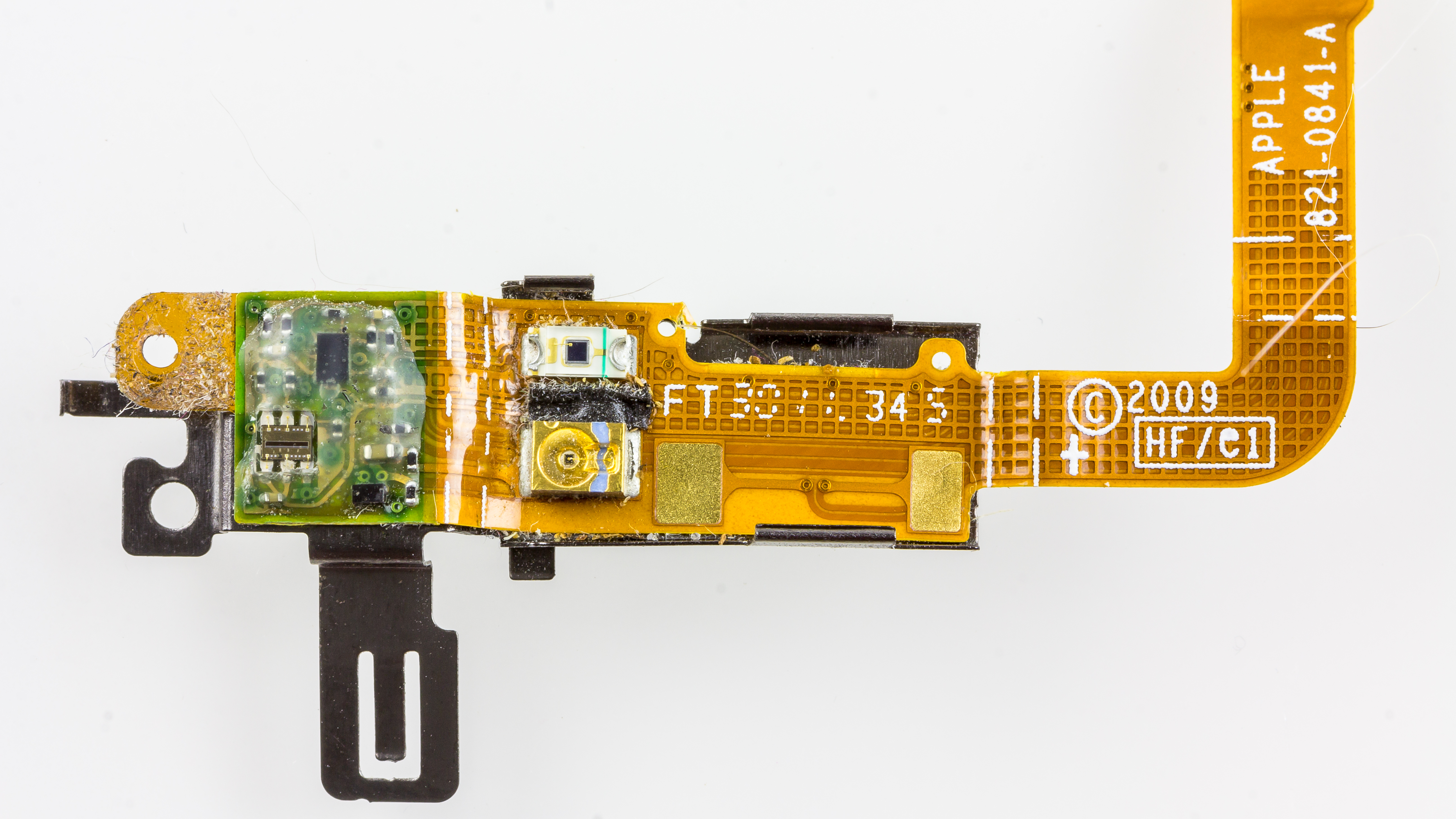 iPhone 3GS - Proximity Sensor 821-0841-A